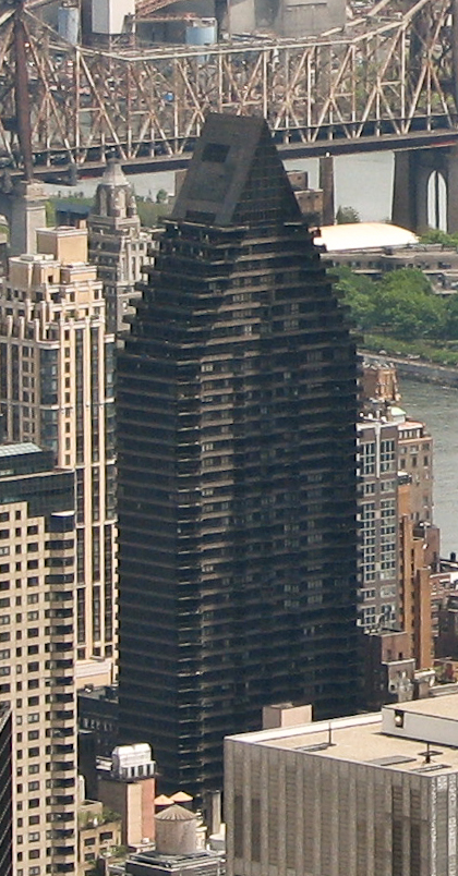 New York City - View from the Empire State Building